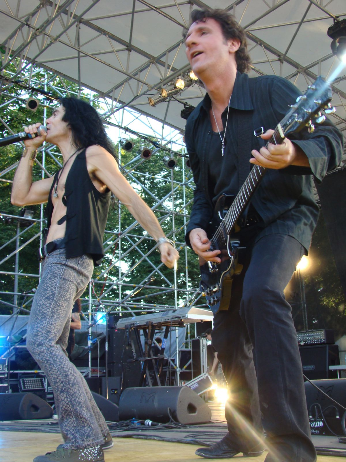 Heavy metal band Virgin Steele